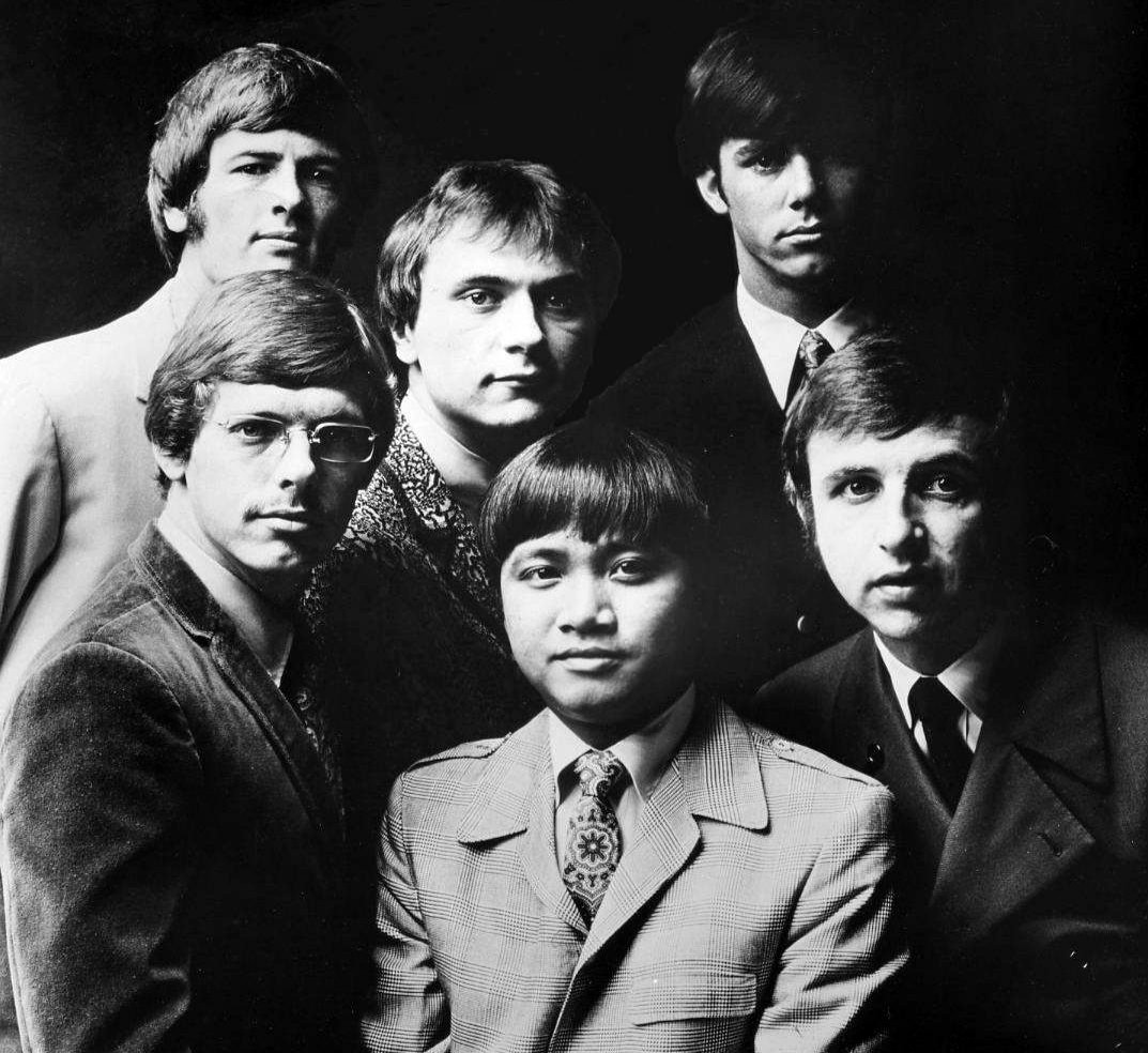 Publicity photo of The Association.